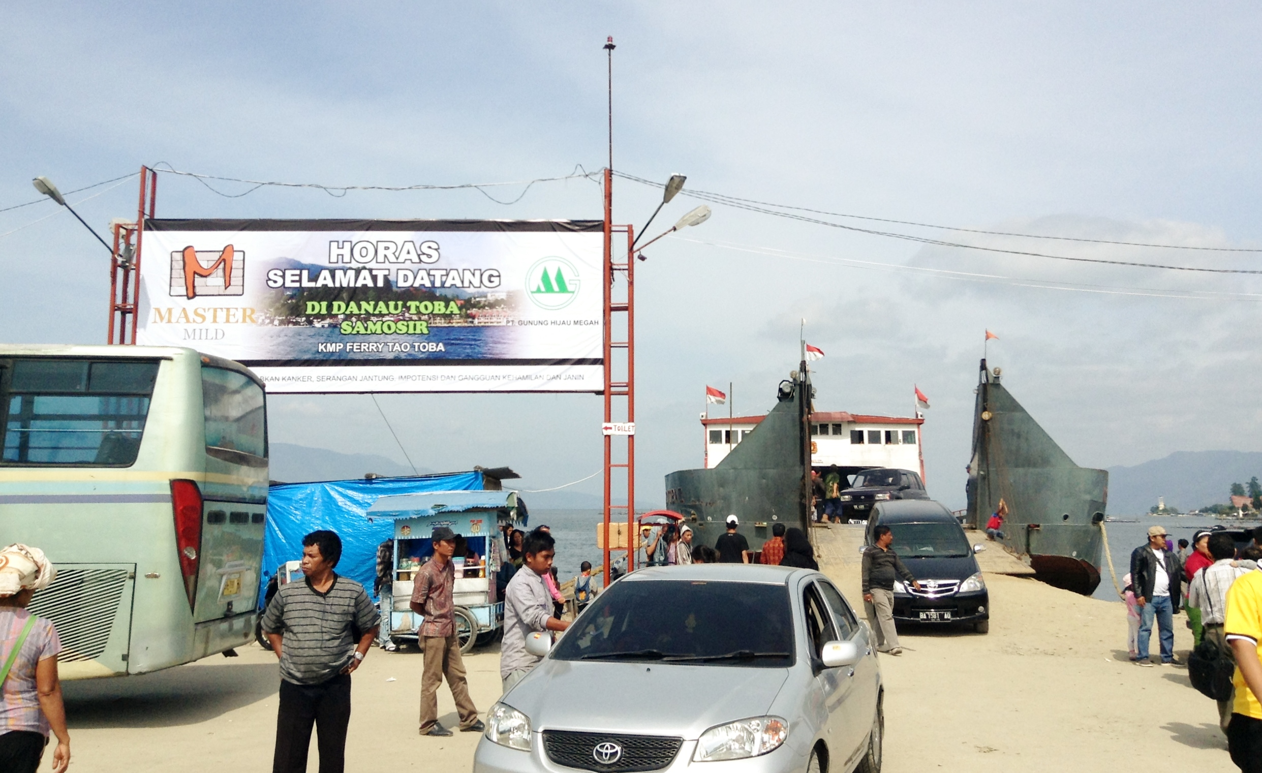 Ferry Port in Ajibata, Toba SamosirBahasa Indonesia: Pelabuhan Feri Ajibata, Toba Samosir